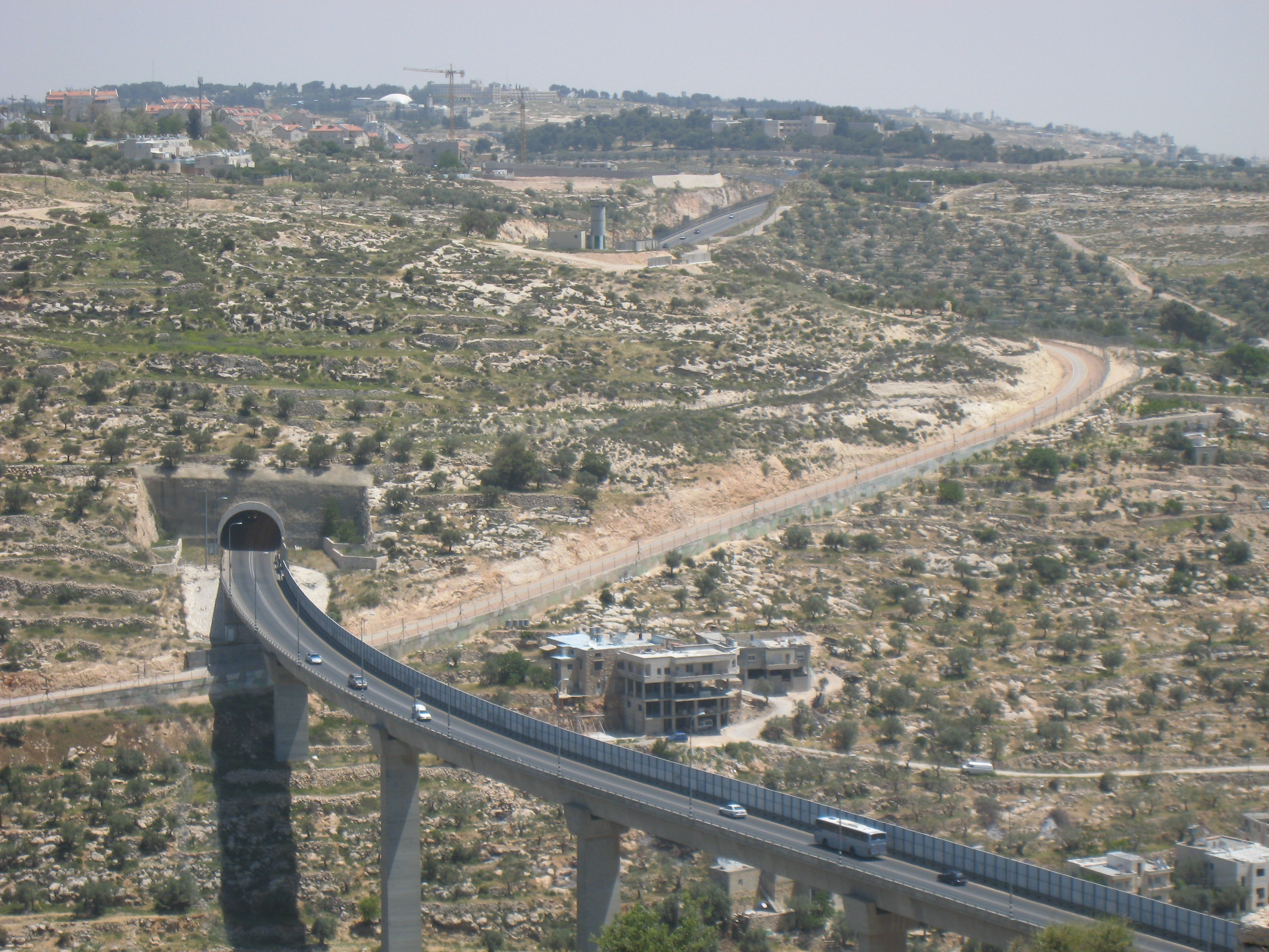 Bridge connecting Israel with the West BankPalestine